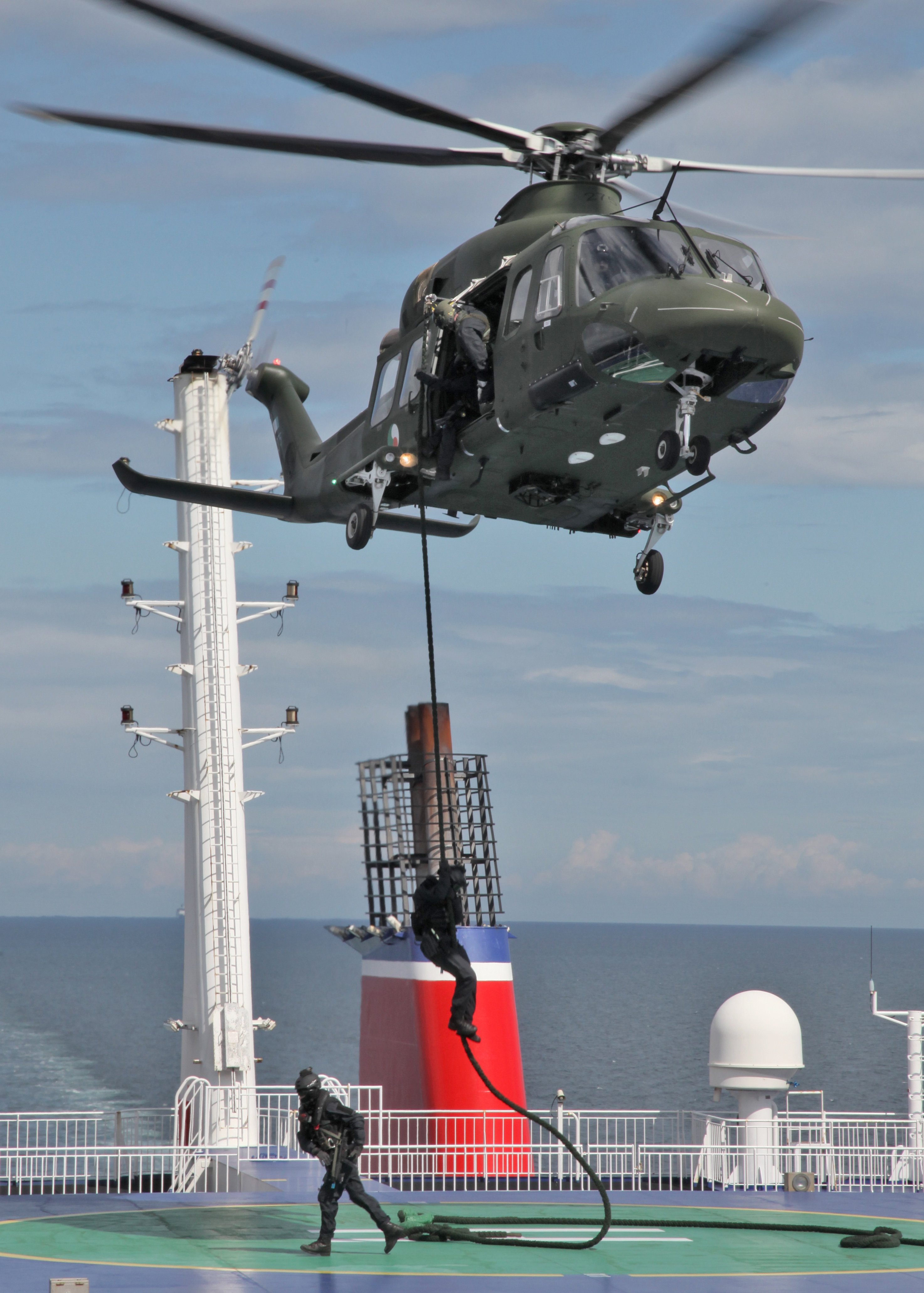 Irish Army Ranger Wing (ARW) maritime counter terrorism exercise with team fast-roping onto the deck of a ship.